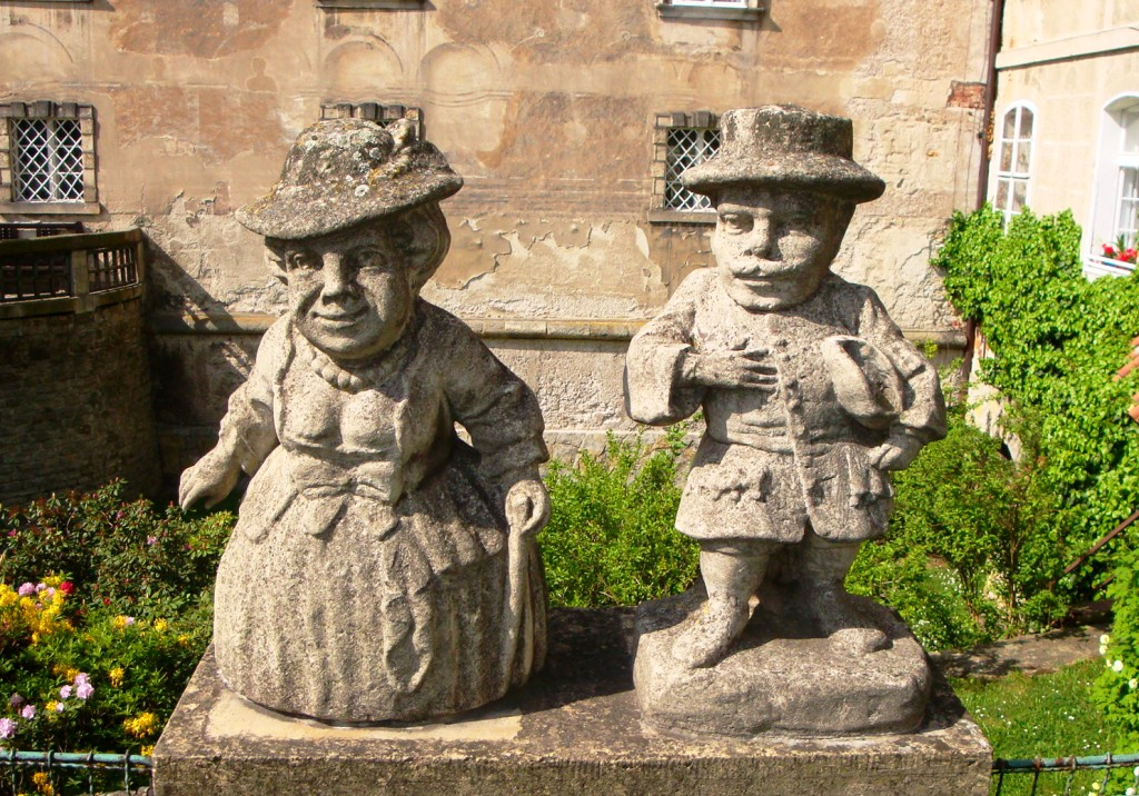 Nové Město nad Metují, Dwarfs by M. B. Braun (around 1720)